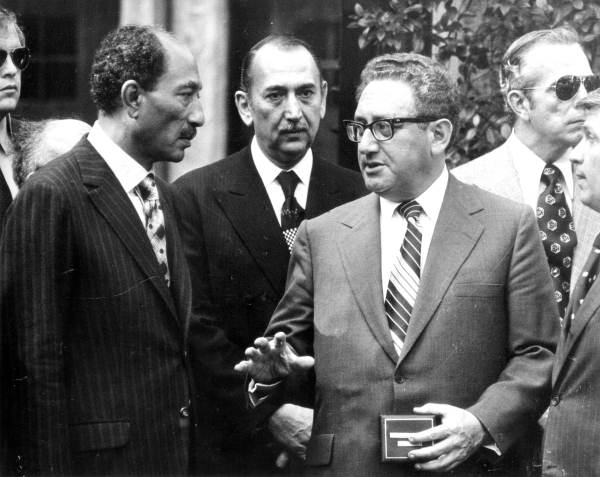 Egyptian President Anwar Sadat (left foreground) and U.S. National Security Adviser and Secretary of State Henry Kissinger (right foreground). From the booklet "President Nixon and the Role of Intelligence in the 1973 Arab-Israeli War." For more information, visit